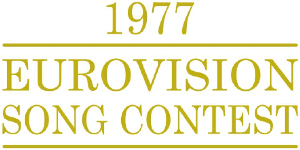 Logo for Eurovision Song Contest 1977